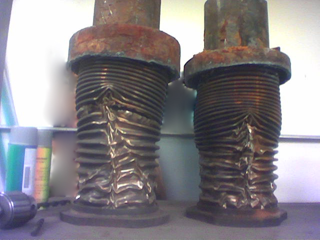 These are bellows type expansion joints taken from a medium-pressure (150-300 psi) steam line. They have been destroyed due to steam-generated water hammer, probably in excess of 5000 psi. I have edited the image to remove irrelevant background stuff.